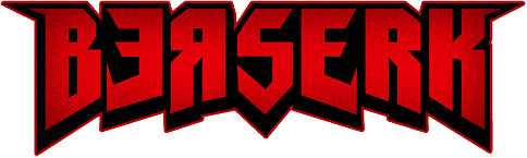 Berserk Logo